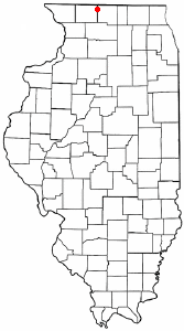 Category:Illinois city locator maps